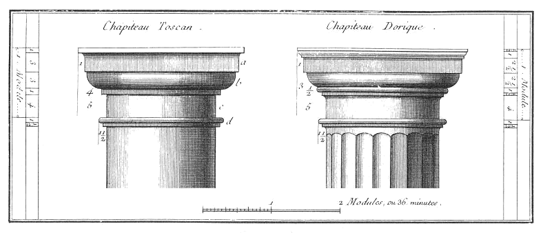 A comparison of the toscan and doric capital. Derivation of